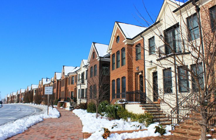 Townhouses along Worthington Blvd.